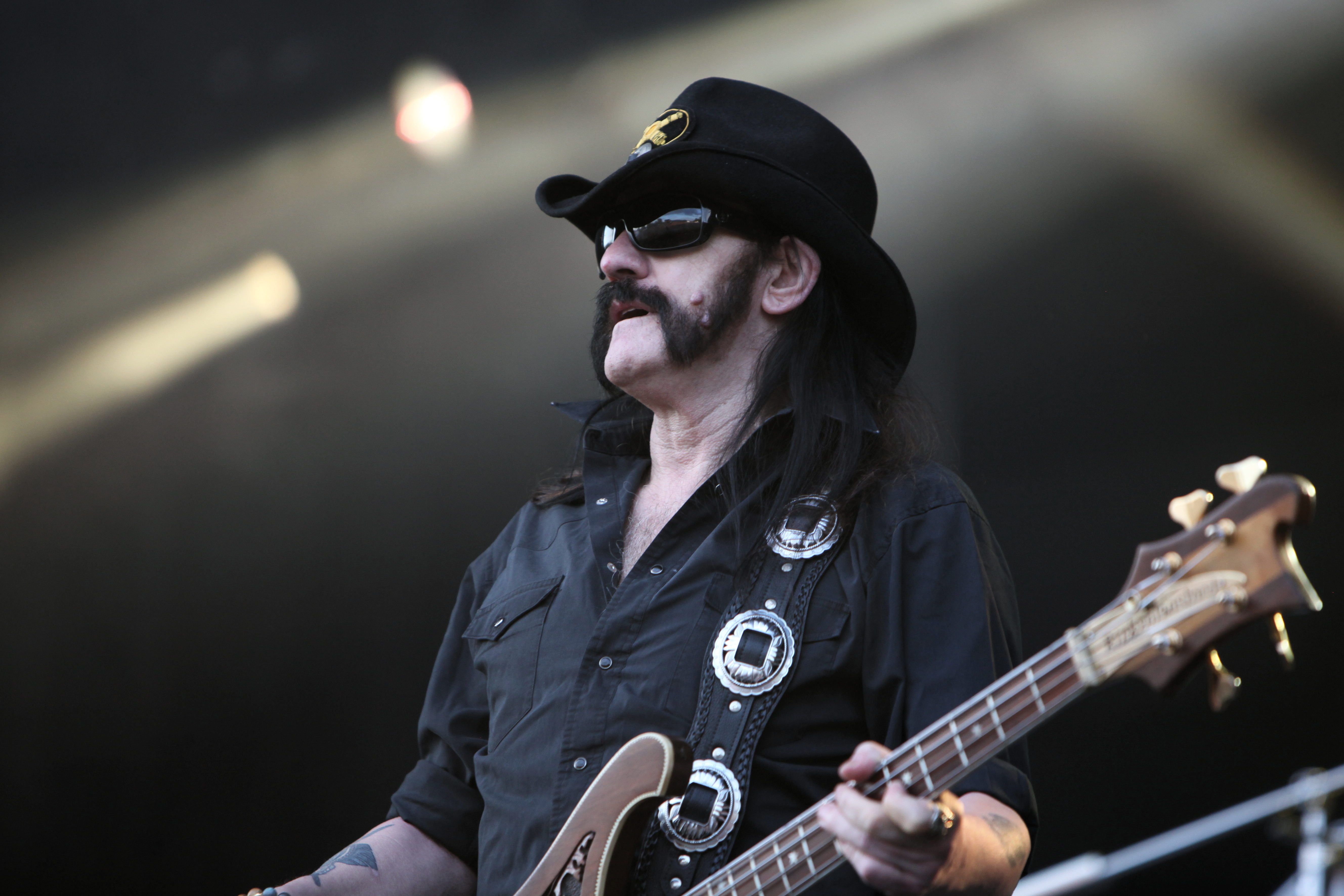 Motörhead at the Eurockéennes de Belfort 2011 The making of this document was supported by Wikimedia CH. (Submit your project!) For all the files concerned, please see the category Supported by Wikimedia CH.